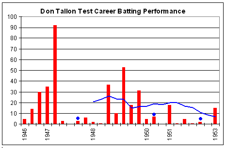 Test batting chart of Don Tallon. Red columns are the runs in the innings. Blue dots indicate not outs. Blue line is average in the last ten innings. Thanks to Raven4x4x for providing the template. This graph was generated with Microsoft Excel 2002, using data from Cricinfo [1] and HowStat [2].